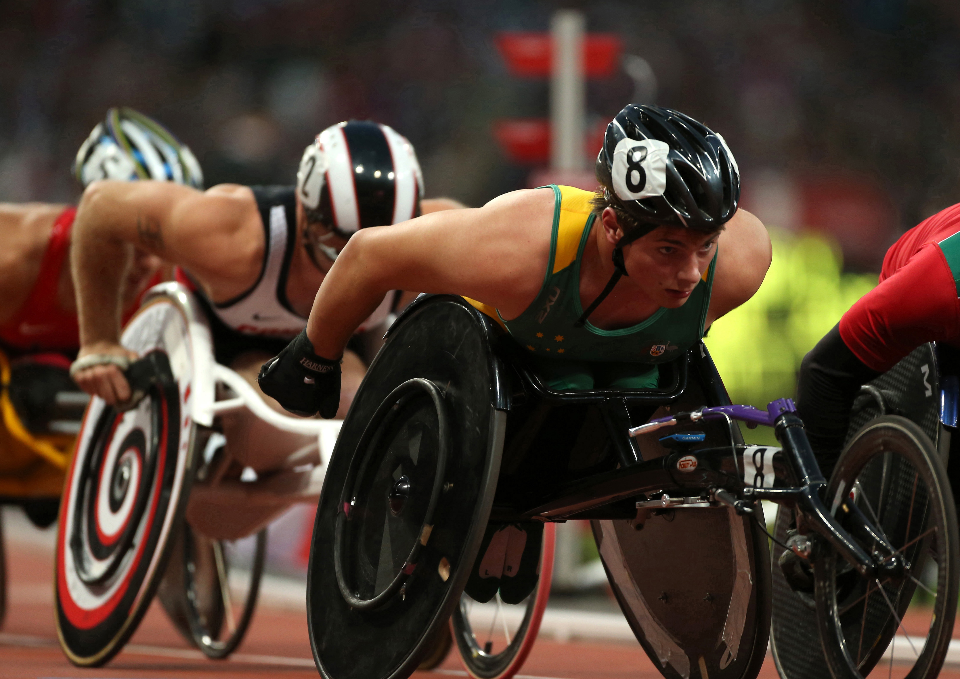 Photograph of Australian Paralympic team member Nathan Arkley at the 2012 Summer Paralympic Games in London